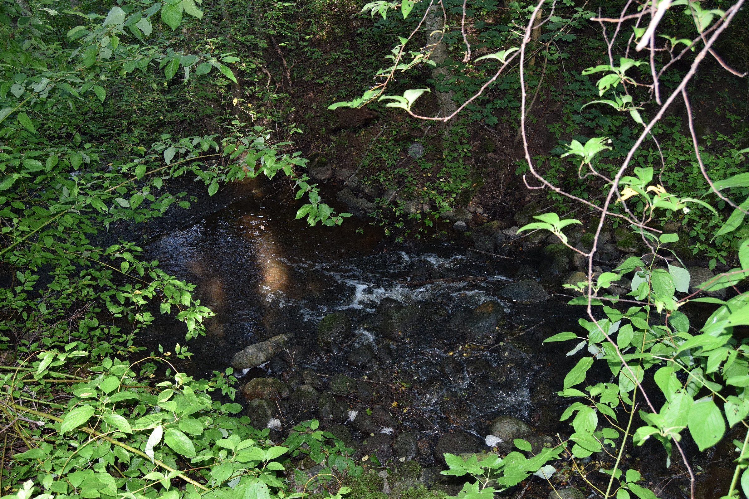 Kotiku oja